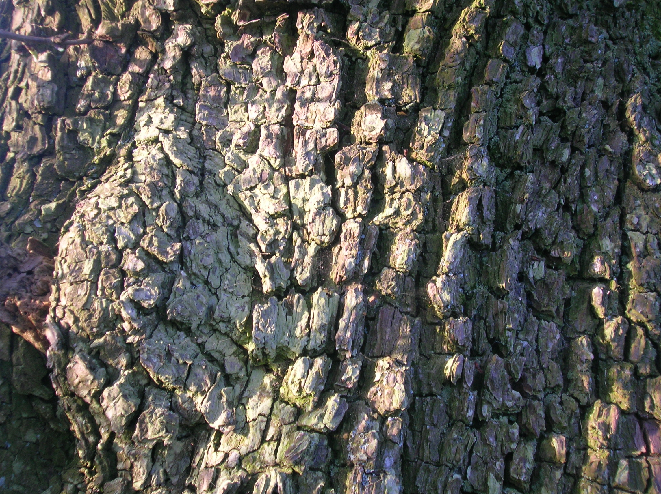 Pyrus pyraster or Wild Pear tree bark